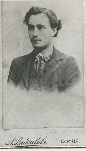 Georgi Dimitrov